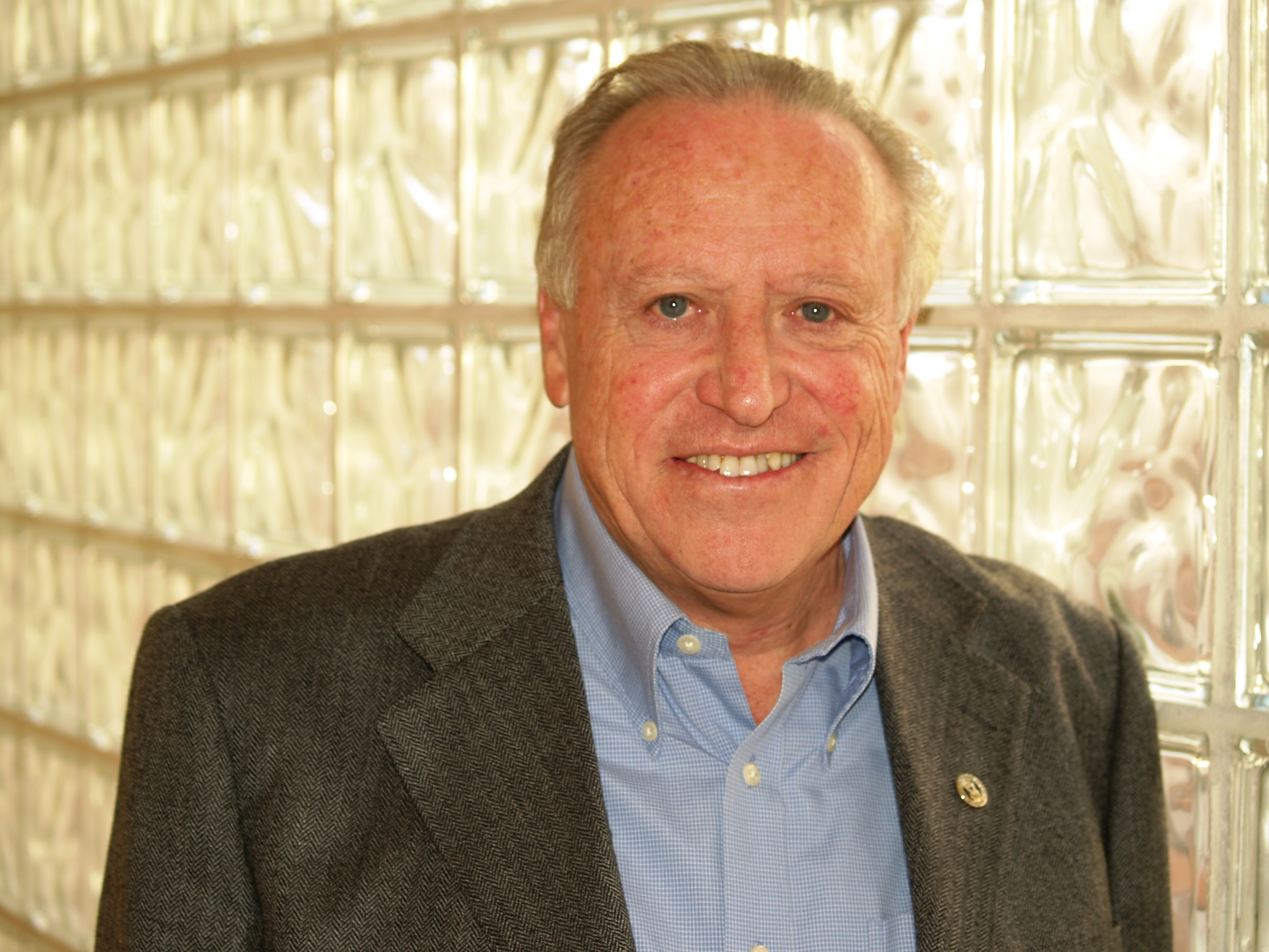 Yitzhak Apeloig by David Shankbone